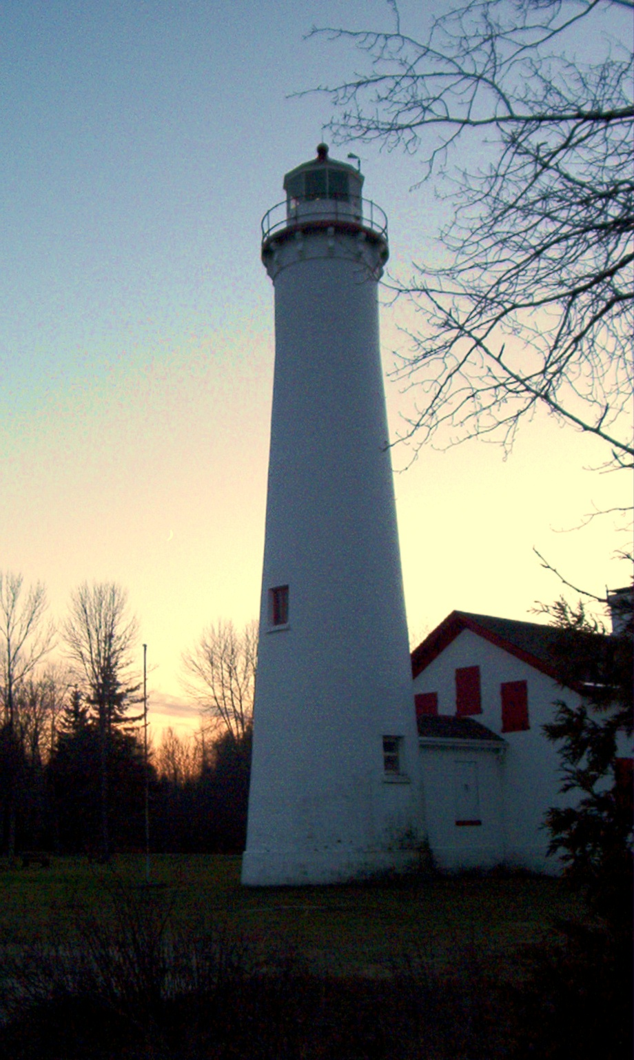 Sturgeon Point Light Station, Alcona County, Michigan. In the late evening in late November 2003. The building is a Registered Michigan State Historic Site.